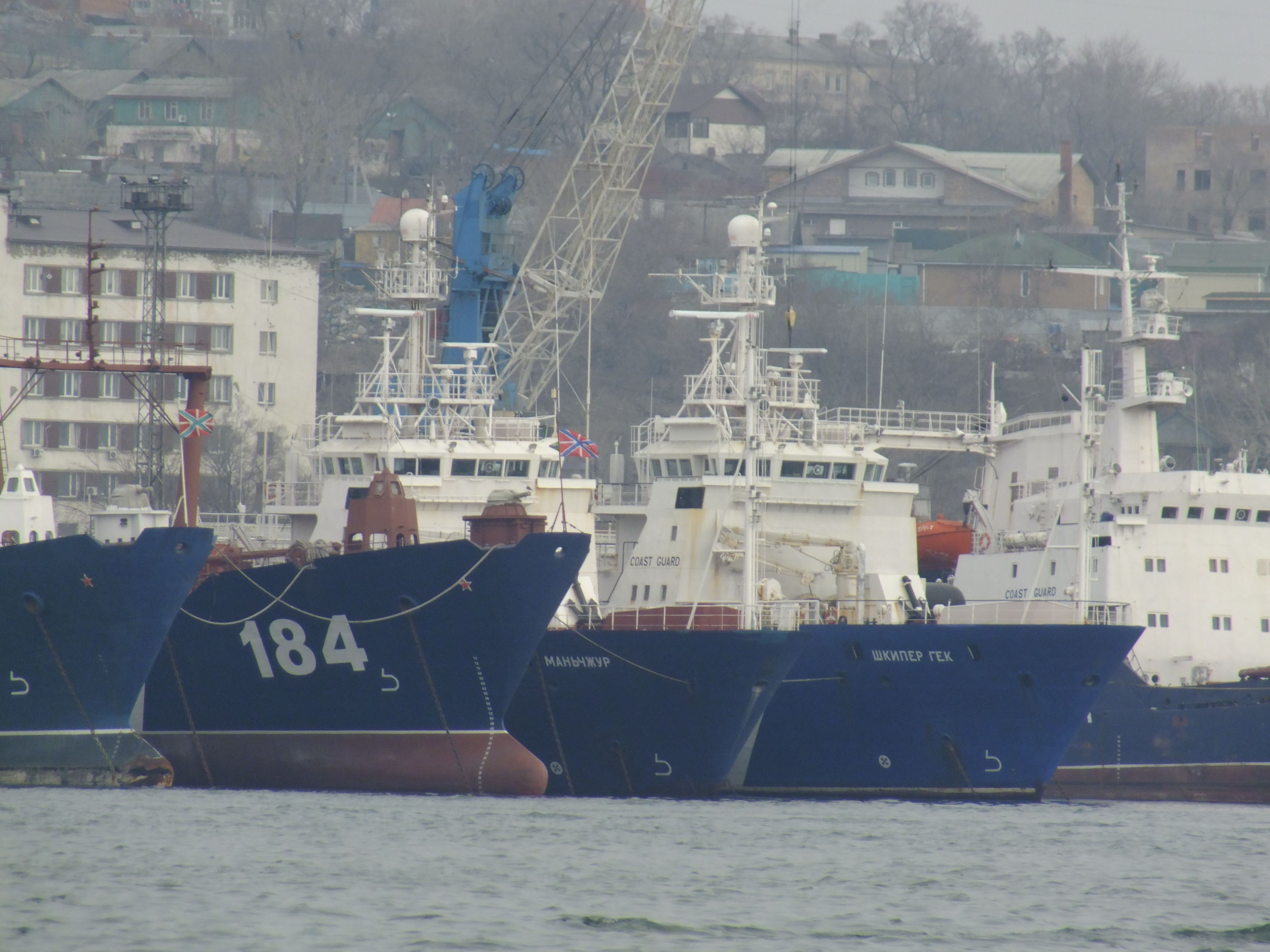 Ships in Vladivostok